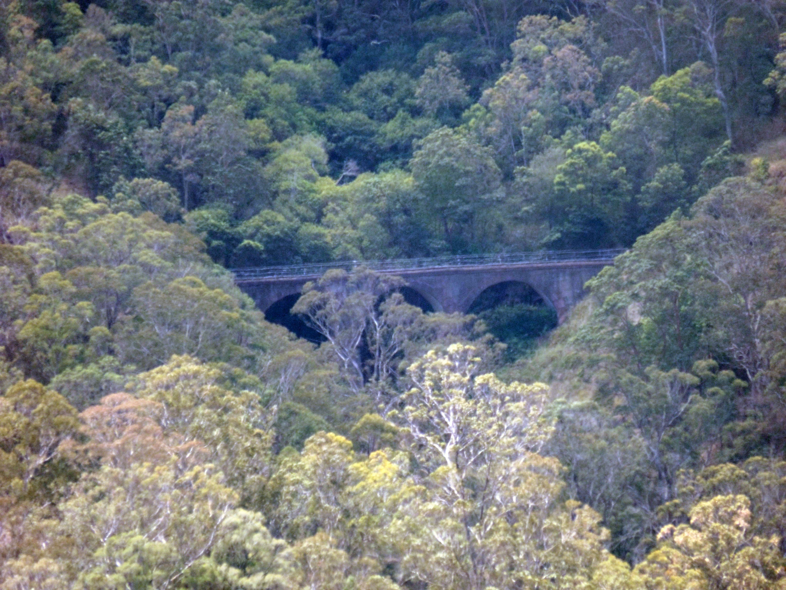 Photo of Swansons Rail Bridge in Ballard, Lockyer Valley Region, Queensland, Australia.